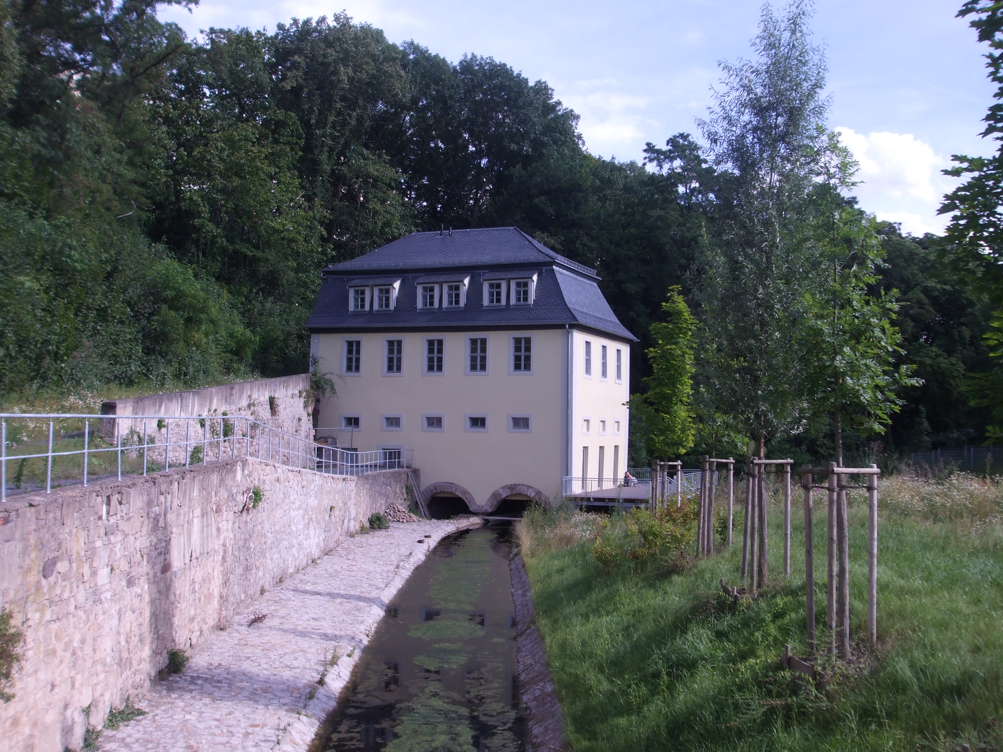 The Wasserkunst in Gera, Germany, in the year 2009